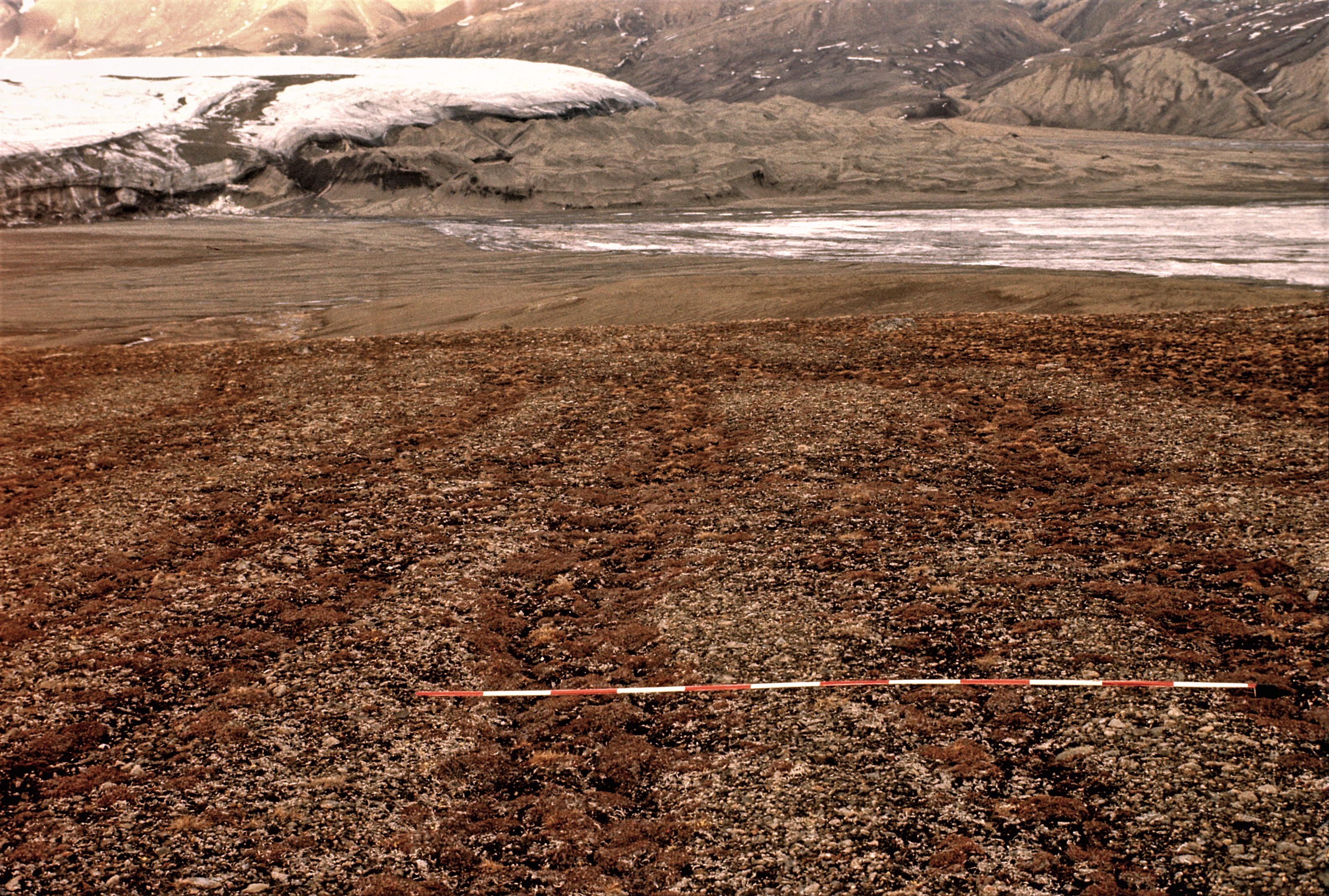 Active push moraine at Thompson Glacier on Axel Heiberg Island +sorted Stripes. The glacier pushes the frozen moraine complex forward